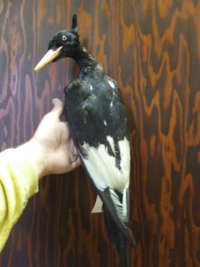 Adult female Imperial Woodpecker (Campephilus imperialis). Museum für Naturkunde Berlin specimen 19265.